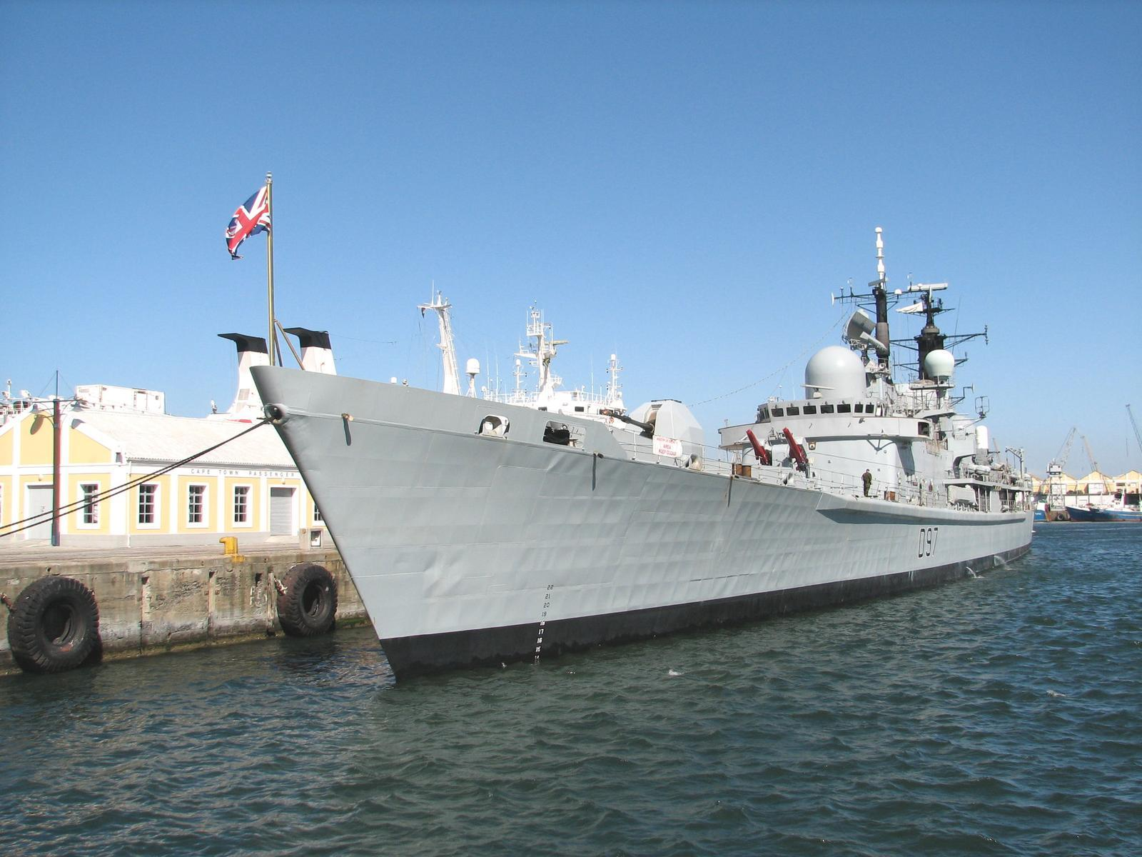 HMS Edinburgh (D97) is a Type 42 (Batch 3) destroyer of the Royal Navy. Edinburgh was built by Cammell Laird of Birkenhead. She was launched on the on 1983-04-14 and commissioned on the 1985-12-17. See Wikipedia article at Edinburgh (D97). The Type 42 Destroyers form the backbone of the Royal Navy's anti-air capability. They are equipped with the Sea Dart medium range air defence missile system, which in its primary role is designed to provide area air defence to a group of ships, although it is also effective against surface targets at sea. In addition to their role as an air defence platform the Type 42 Destroyers operate independently carrying out patrol and boarding operations, recently enforcing UN embargoes in the Gulf and the Adriatic as well as providing humanitarian assistance in Monserrat and East Timor. See HMS Edinburgh's website at